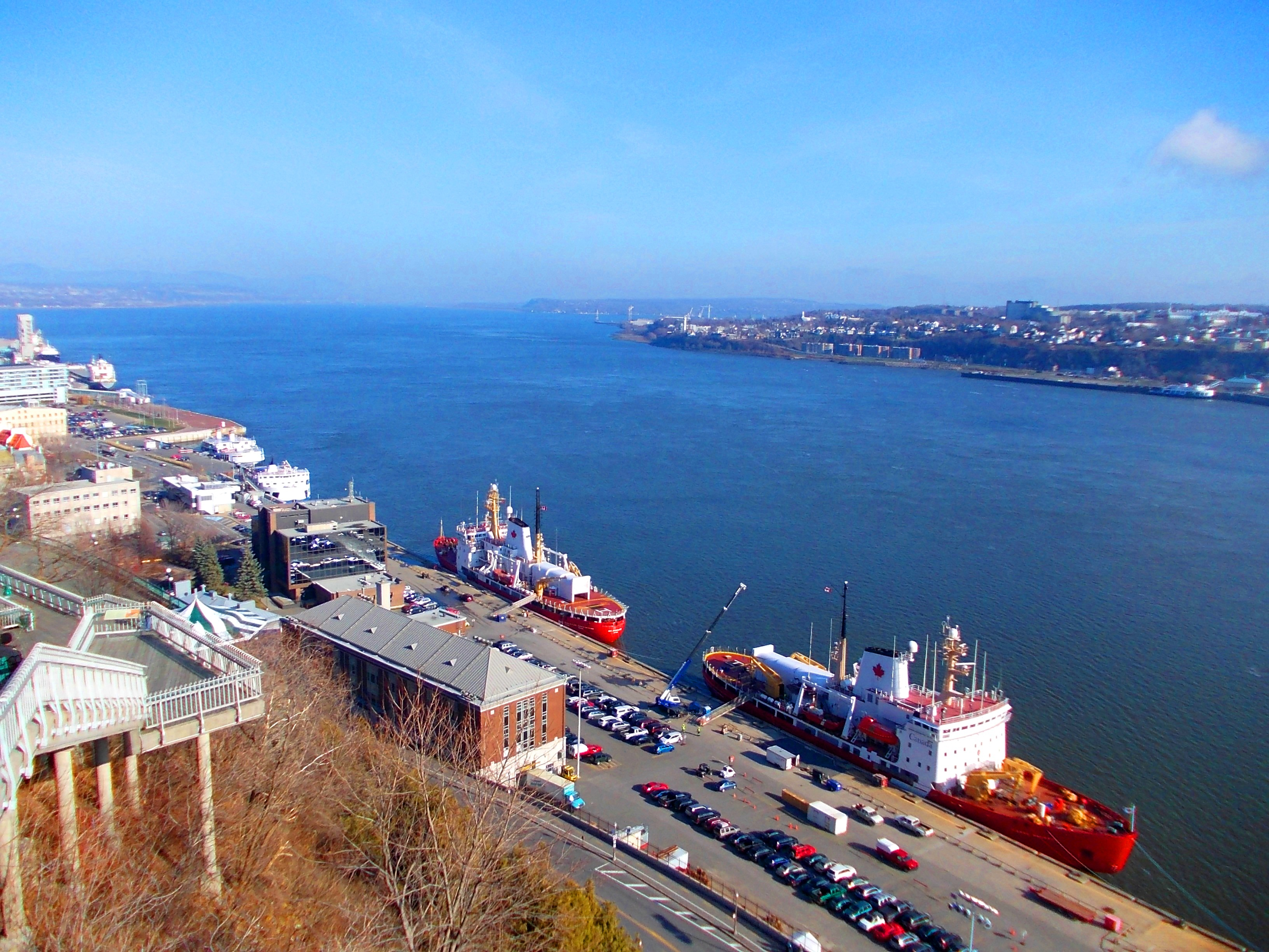 Québec City shore